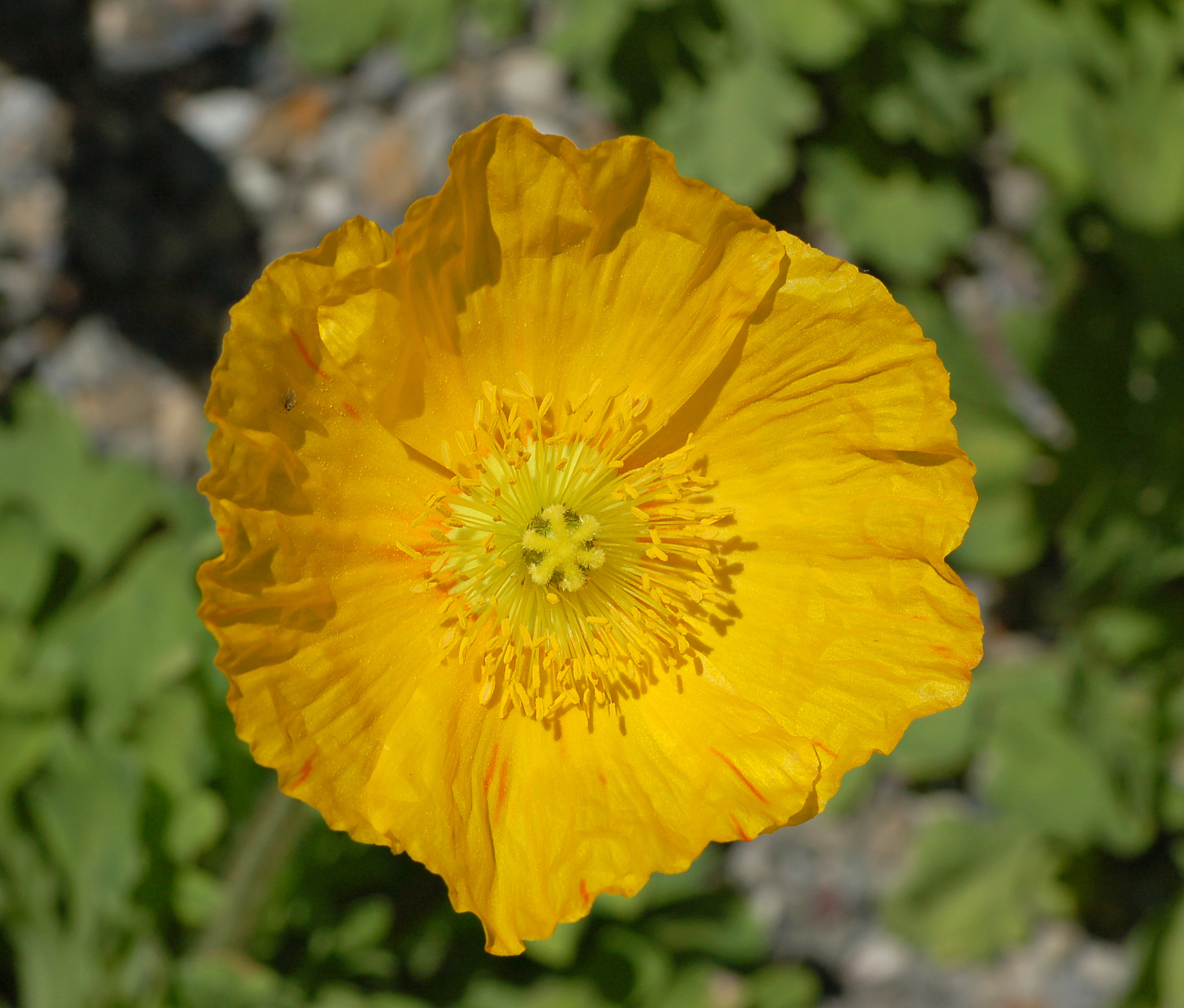 Picture of a yellow Iceland Poppyen (Papaver nudicaule en 'Champagne Bubbles') flower. Photo taken in the Teacup Garden at the Chanticleer Garden where the species was identified.